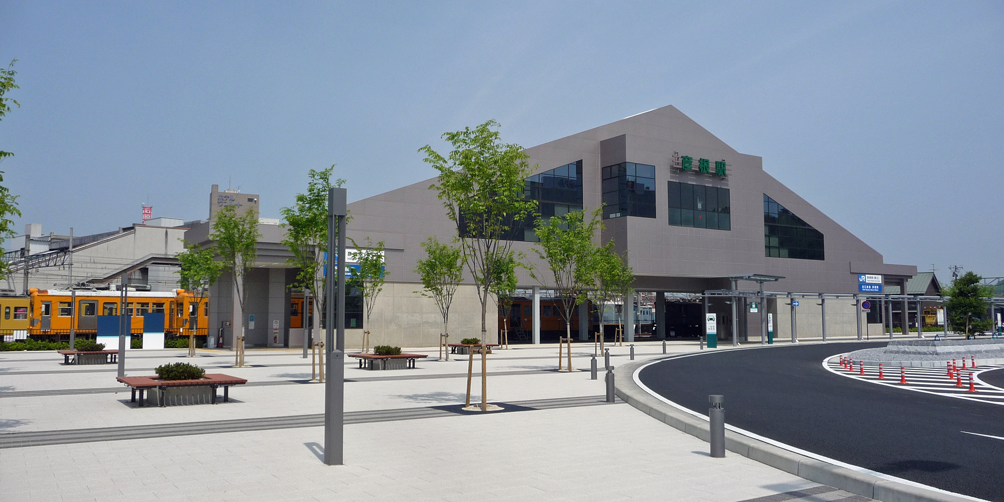 Hikone Station east entrance.